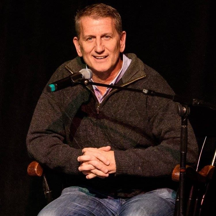 Tom Kirdahy speaking at an event